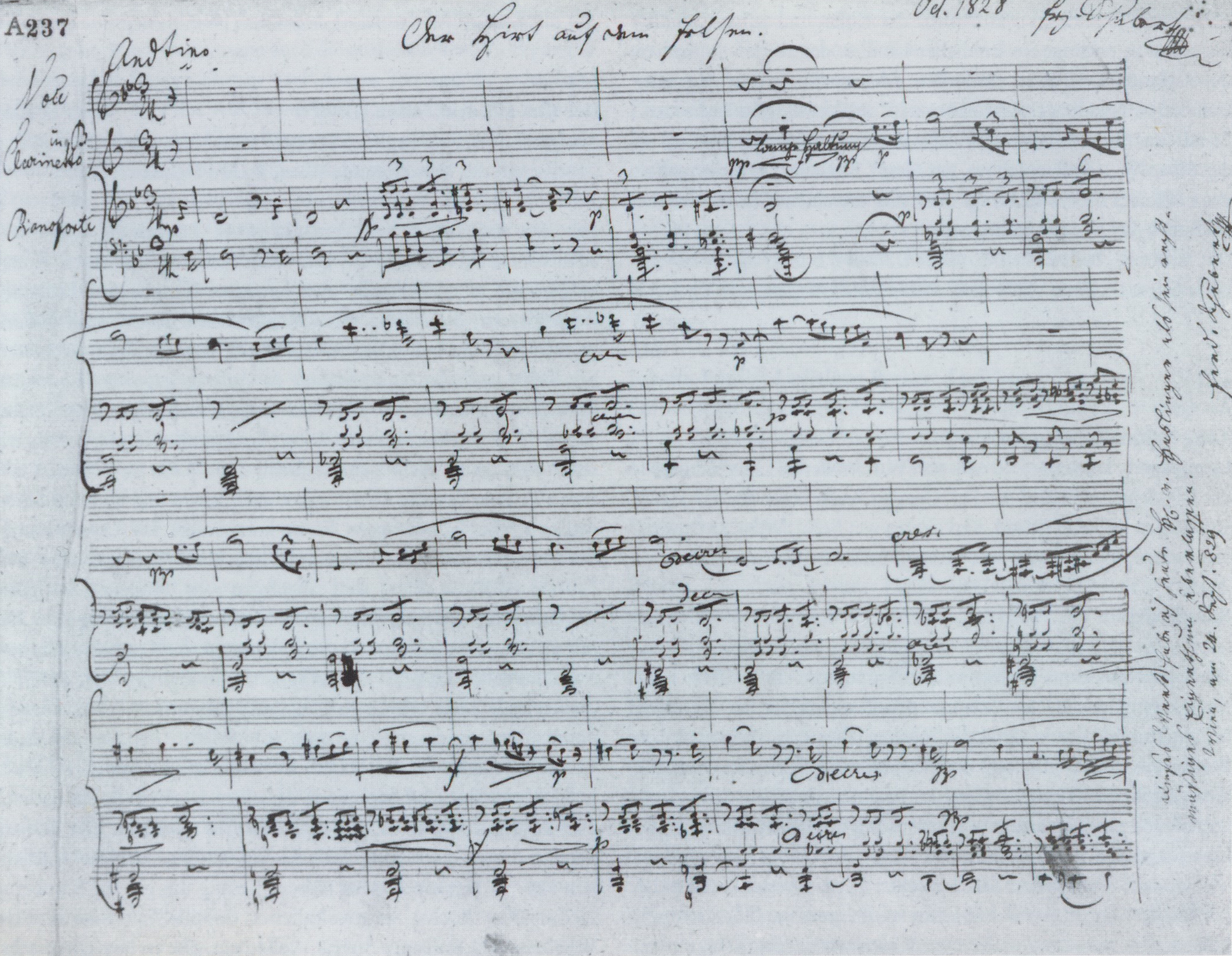 "Shepherd on the Rock" (1828) by Franz Schubert; facsimile W. Dahms, 1913